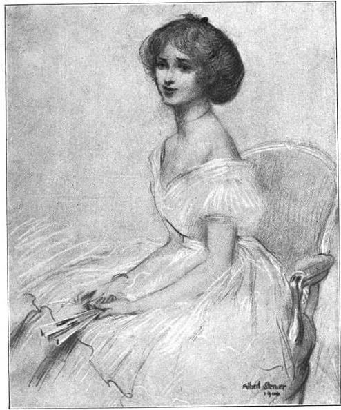 Frontispiece of 1905 novel "The Marriage of William Ashe", illustration by Albert Sterner (1904). First appeared in Harper's Magazine.